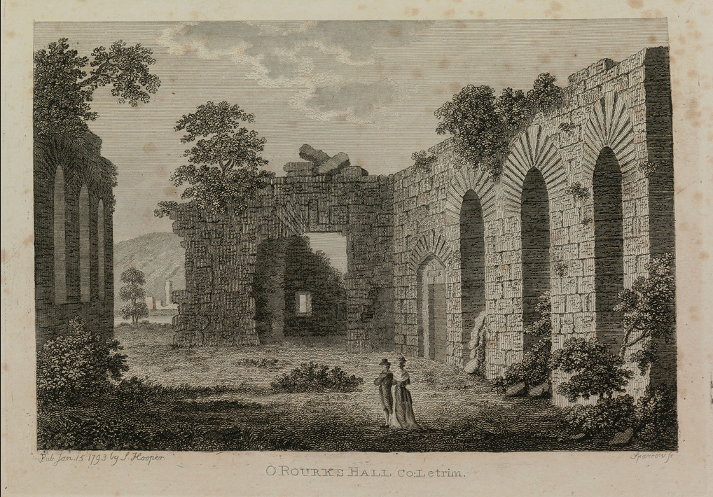 19th woodcut of the O'Rourke banqueting Hall in Dromahair, County Leitrim.